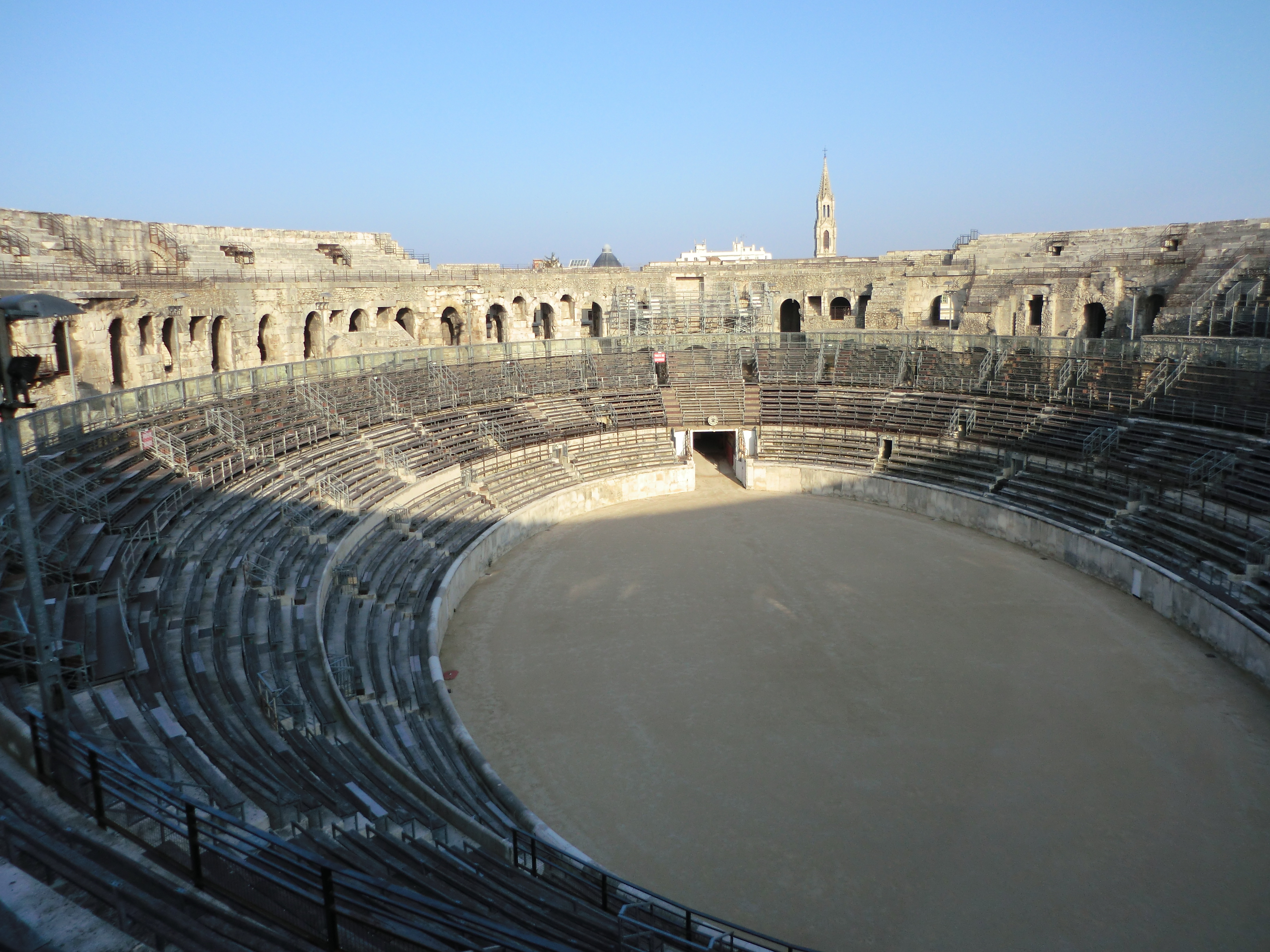 Arena of Nîmes